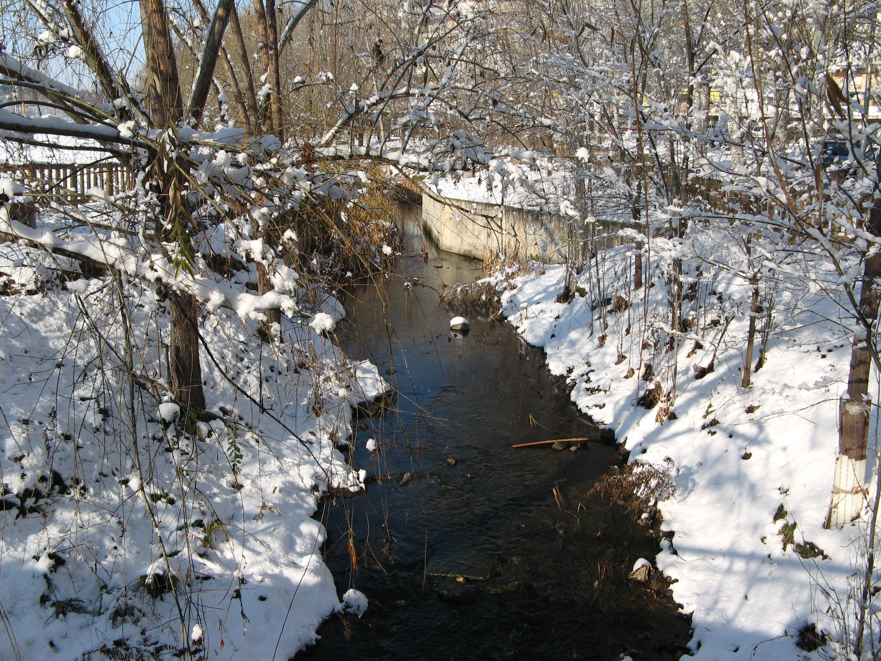 Camarmilla River in Alcalá de Henares, Madrid, Spain.